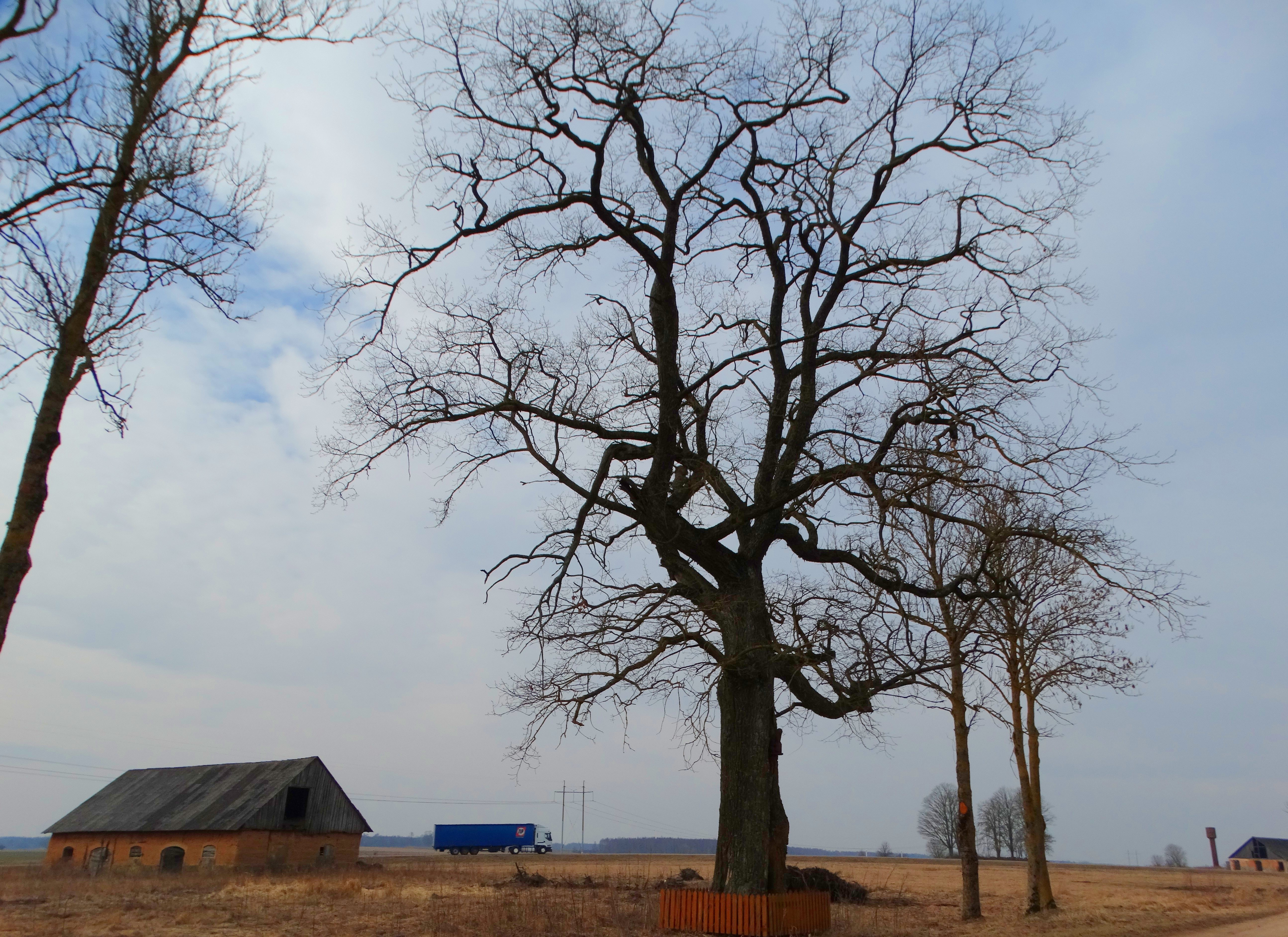 Dovydžiai Oak, Akmenė district, Lithuania